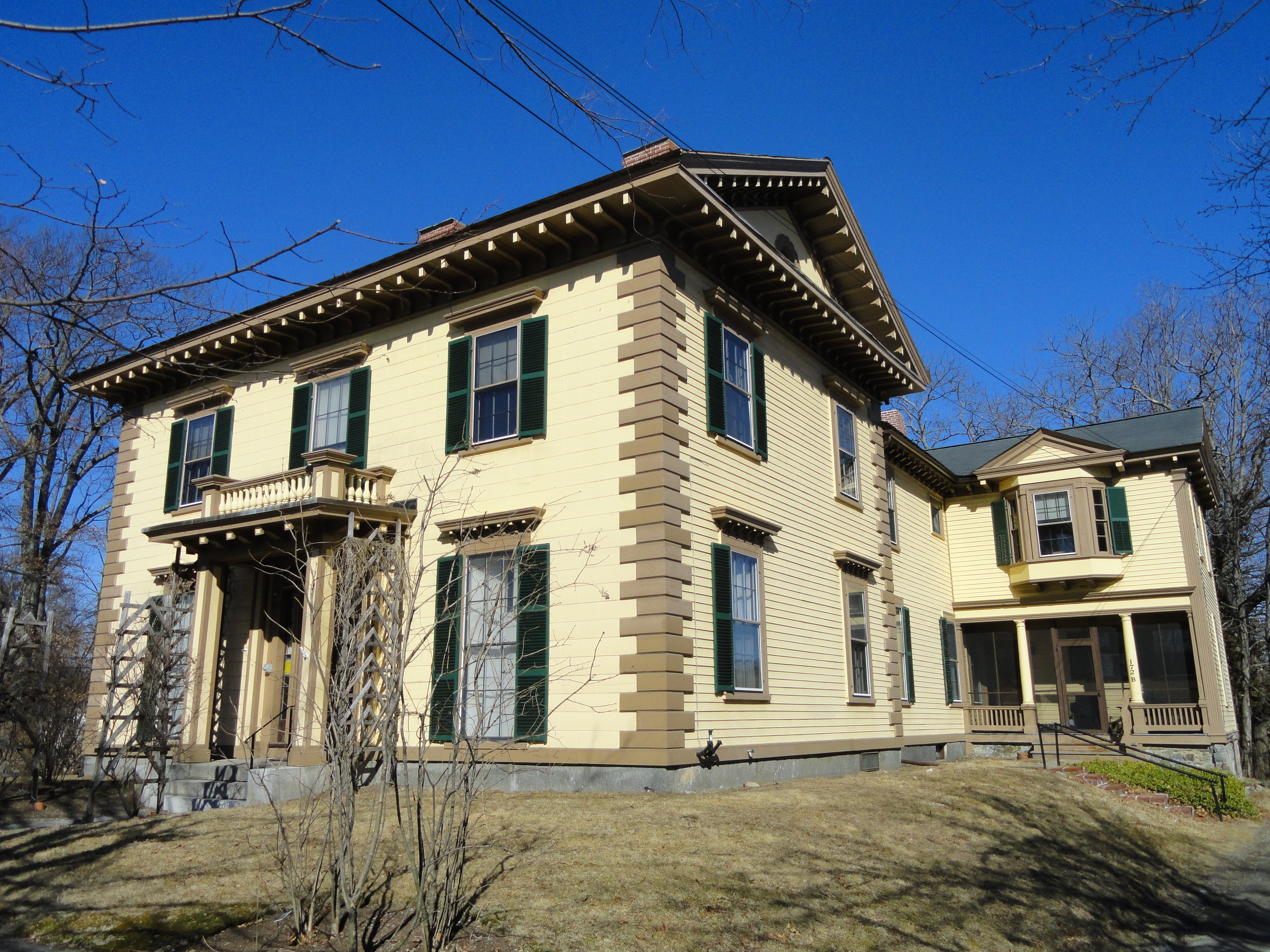 Gov. George S. Boutwell House, 172 Main Street, Groton, Massachusetts, USA. Built in 1851; added to the National Register of Historic Places in 2005. Currently home of the Groton Historical Society.